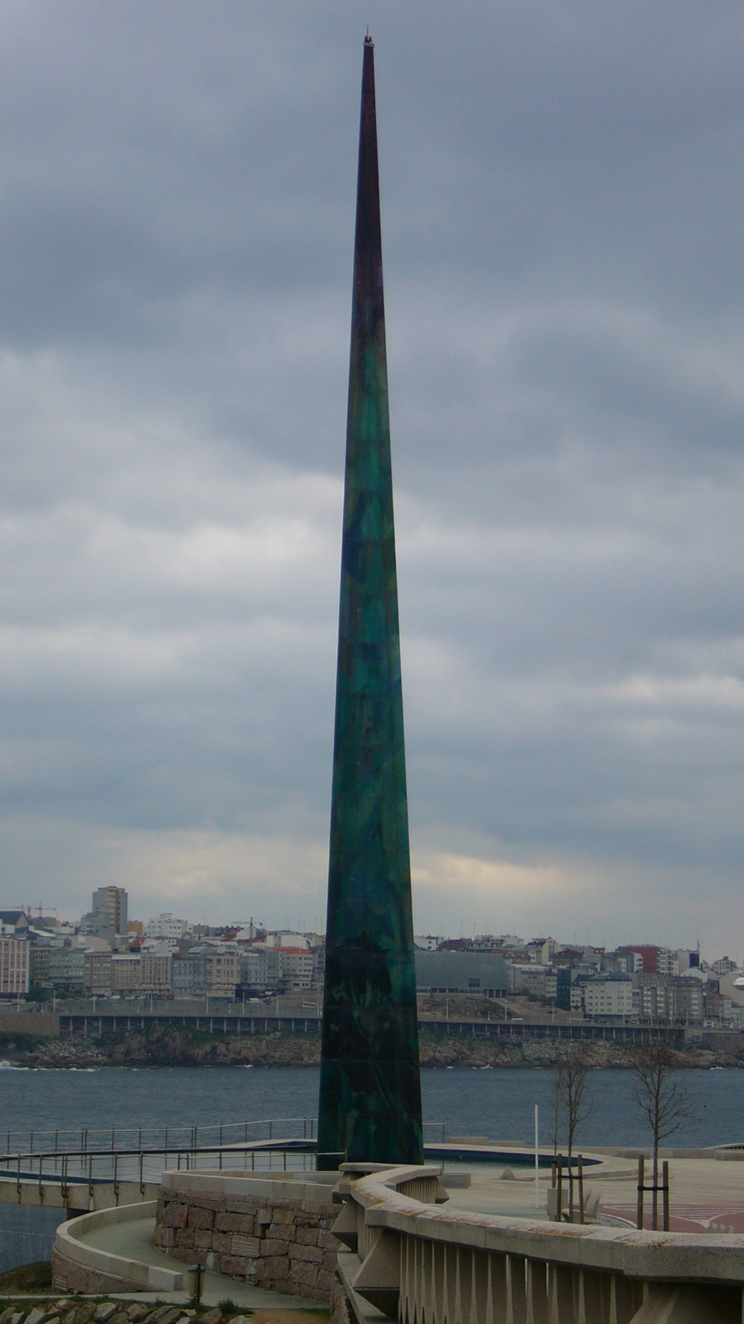 Millenium Obelisk of Corunna, Galicia, Spain